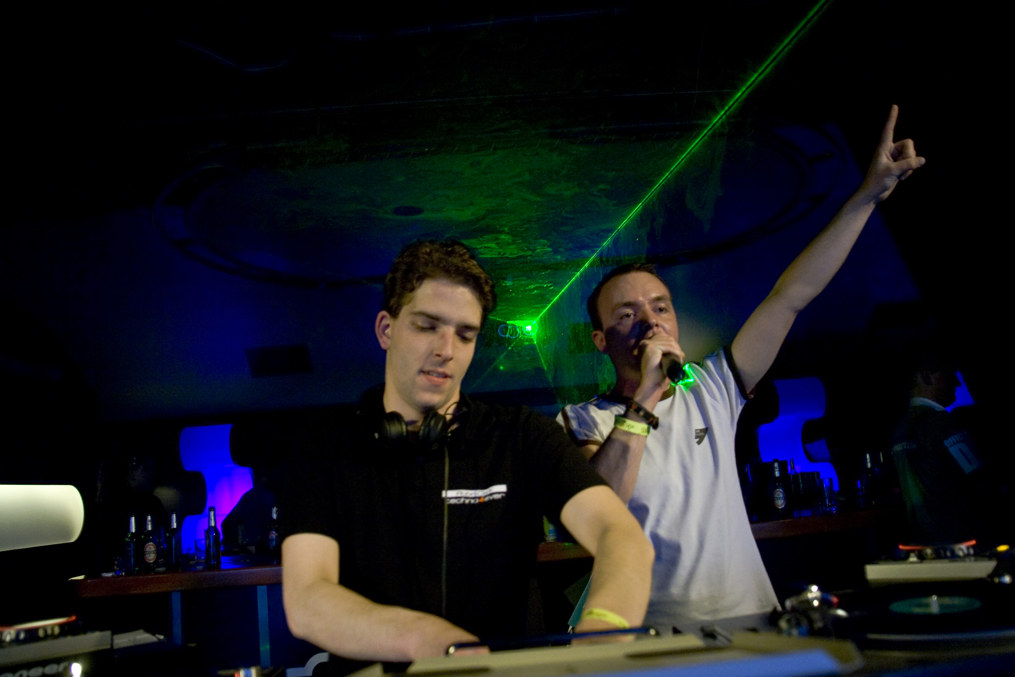 Robin Clark live at Birthday Rave at Ta-Töff in Bevern